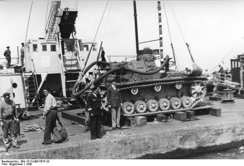 German preparations for operation Sealion, invasion of the british islands. A Panzer III tank modified for amphibious operations in France 1940.